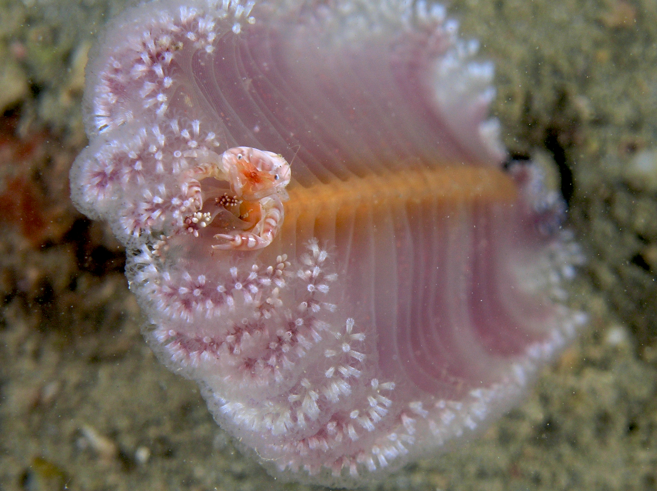 Virgularia sp (banded sea pen) with Porcellanella picta (porcelain crab) filter feeding on top